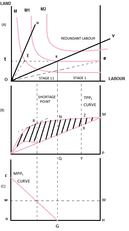 Land Labor Production Function for Fei-Ranis Model of Economic Growth